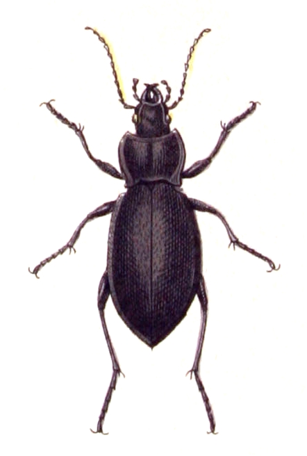 Carabus glabratus, from Calwer's Käferbuch, Table 3, Picture 10. Taxonomy was updated to 2008, using mostly the sites Fauna Europaea and BioLib. Please contact Sarefo if the determination is wrong!